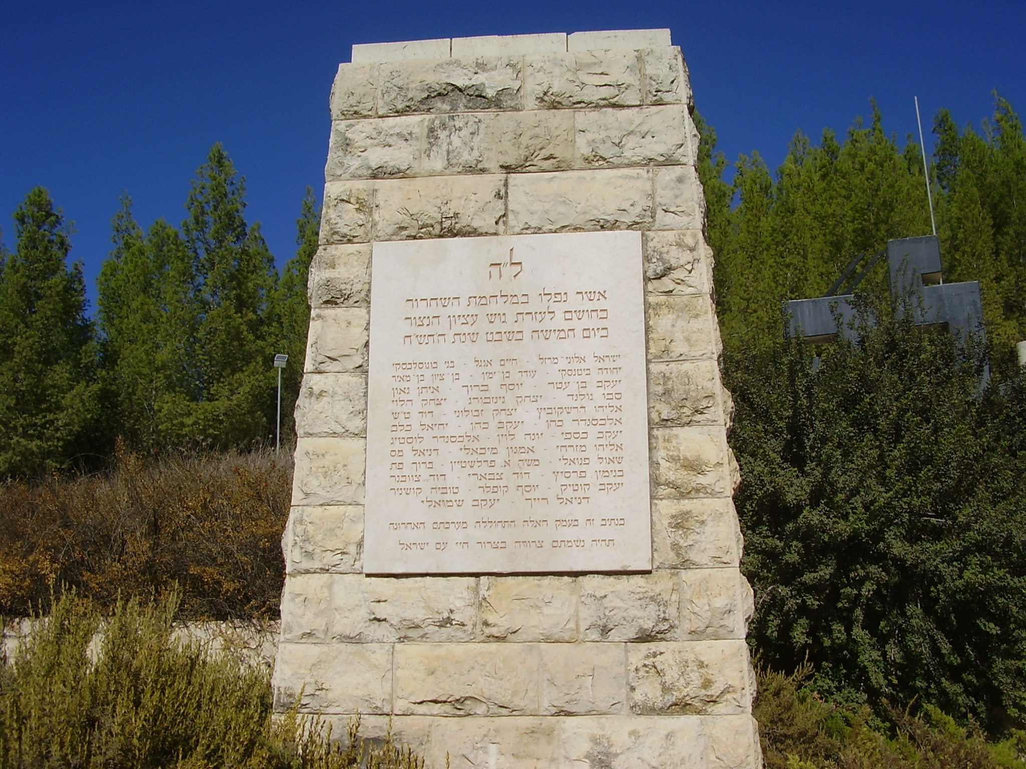 the convoy of 35 memorial near kibbutz netiv halamed-hey